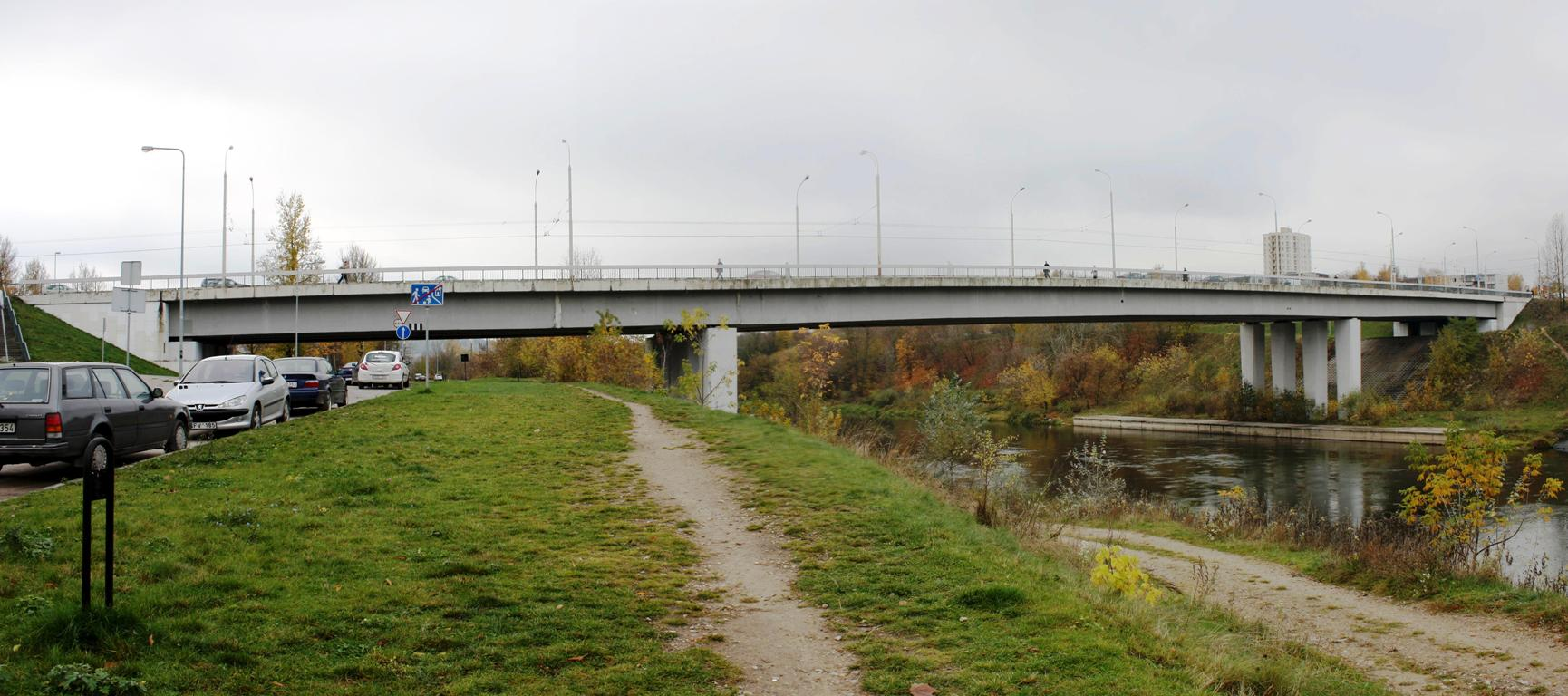 Šilas Bridge over River Neris in Vilnius, Lithuania.